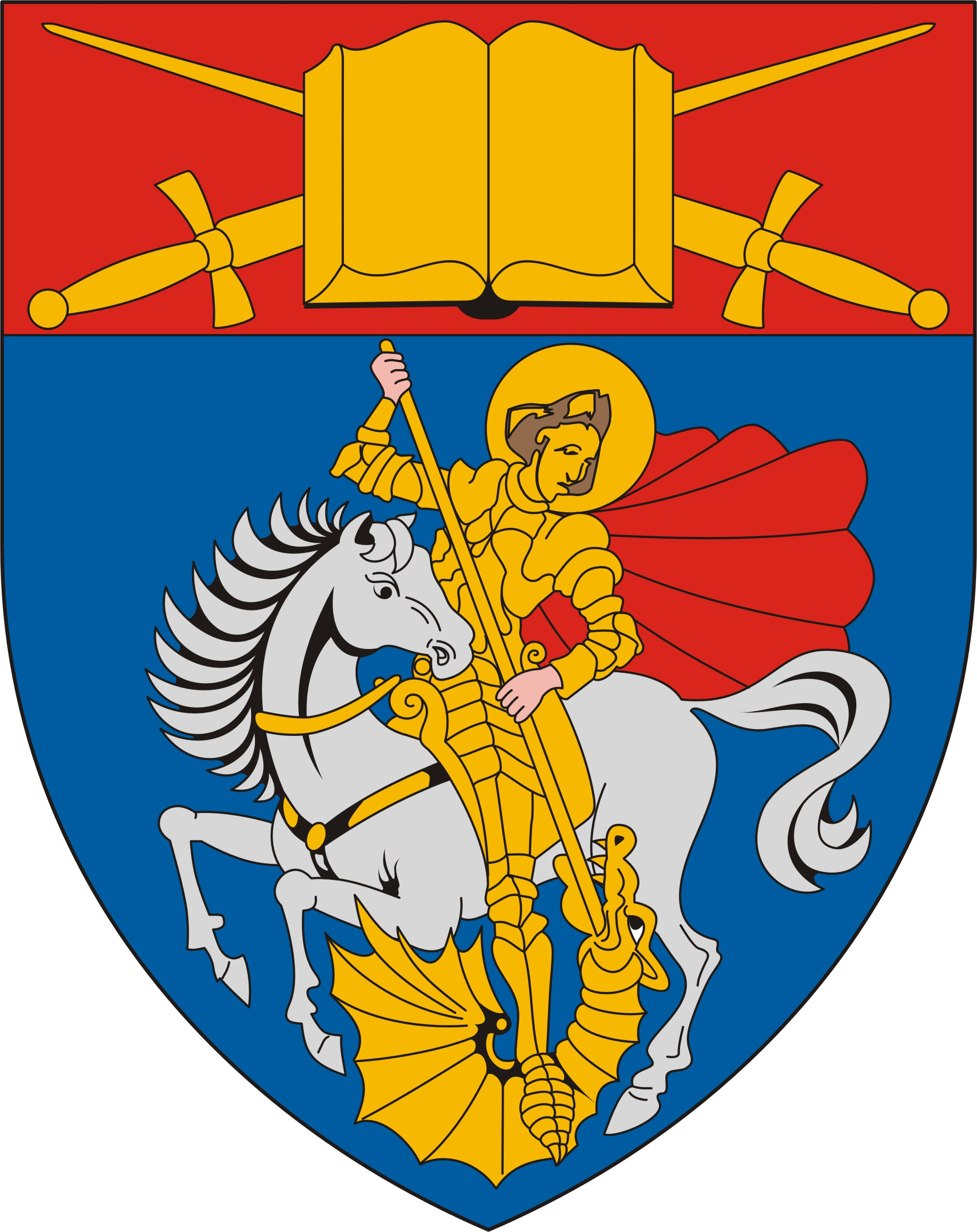 Coat of arms of Bácsszentgyörgy, Hungary